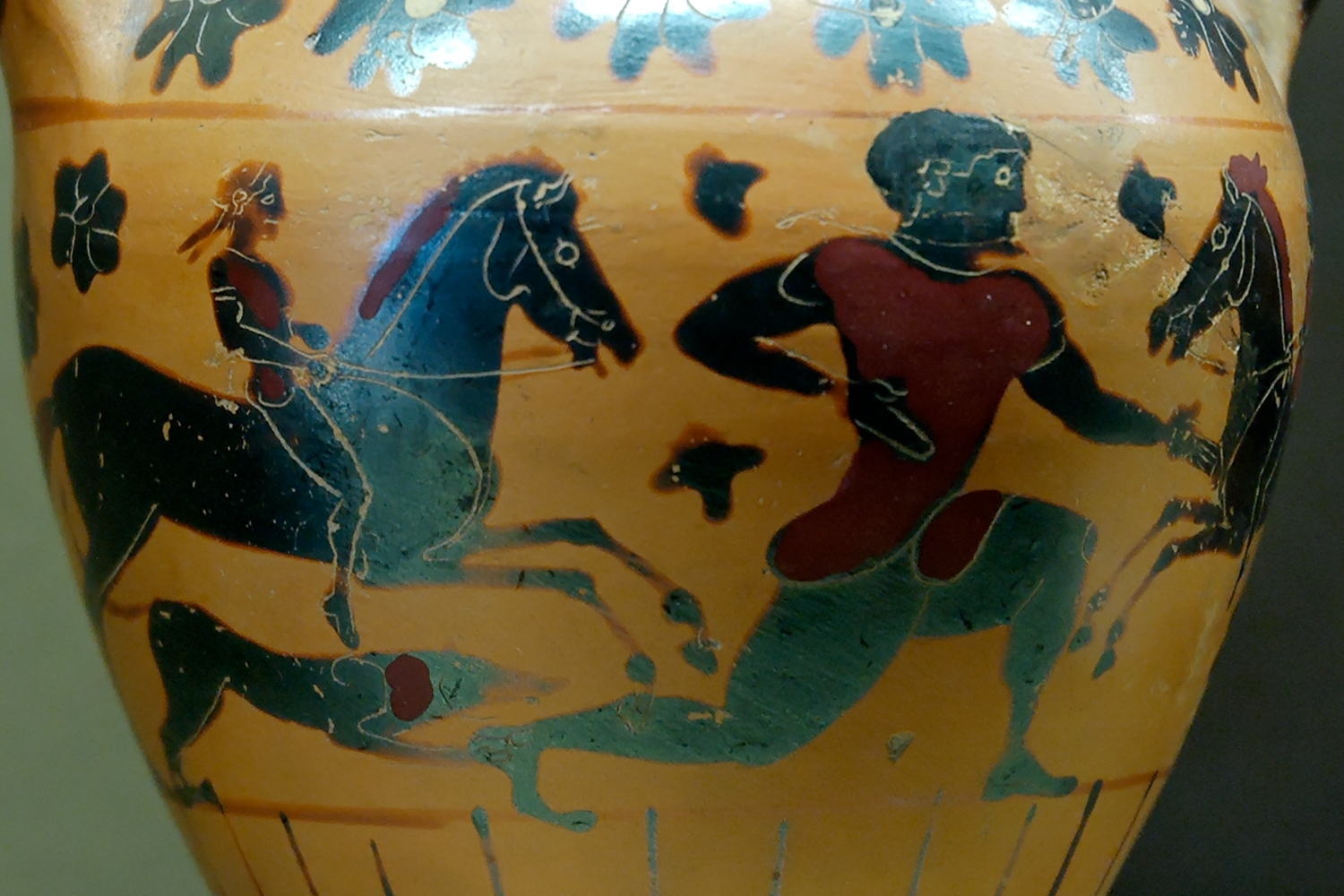 Runner and riders, detail from the side A of a black-figure neck-amphora. Side A